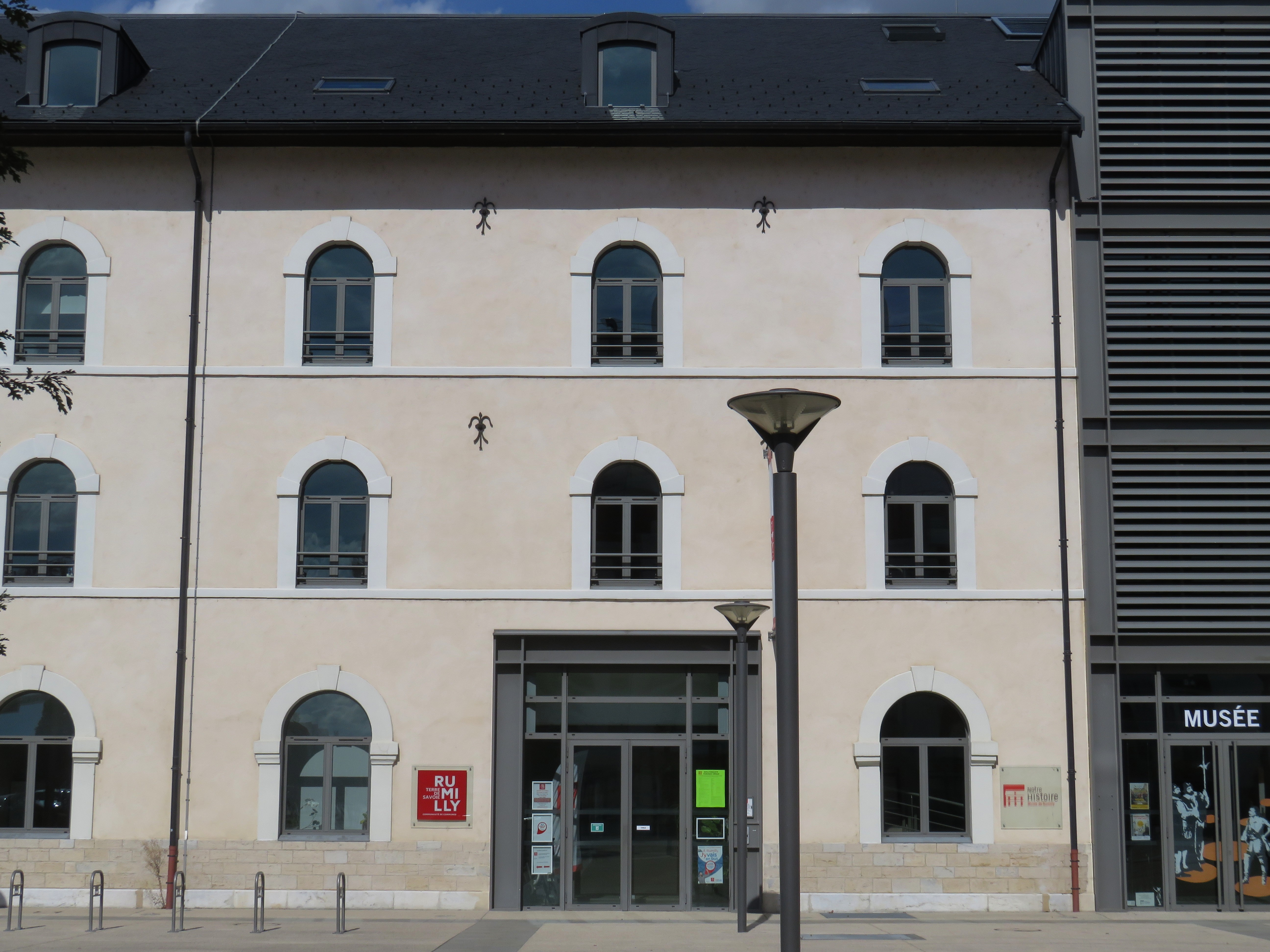 The head office of the French agglomeration community Rumilly Terre de Savoie (Rumilly, France) on September 28, 2019.